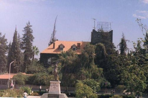 As Suwayda's town square.